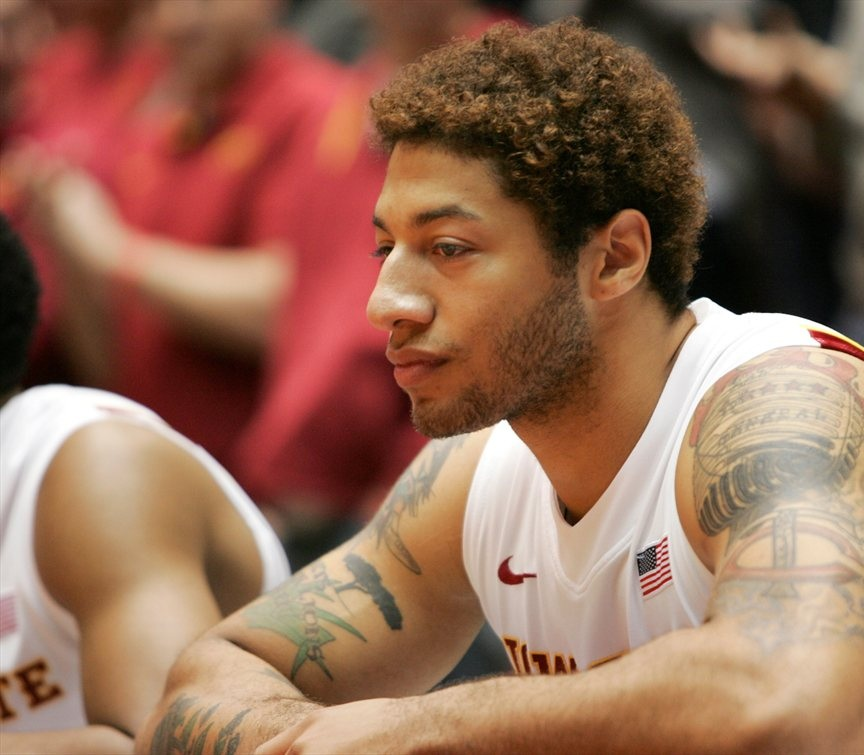 Royce White seated on November 30, 2011